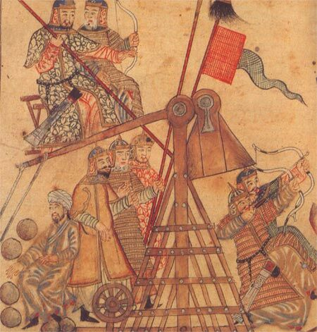 Mongol troops near catapult. Miniature from the Rashid al-Din's cronicle (fragment).